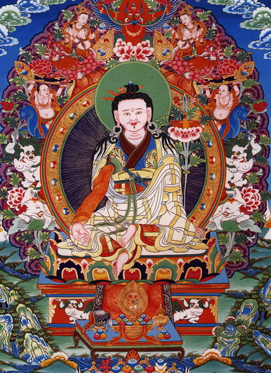 Jigme Lingpa, famous Tibetan Nyingma Terton, (Tib: འཇིགས་མེད་གླིང་པ།, Wy.: 'jigs med gling pa) 1729-1798